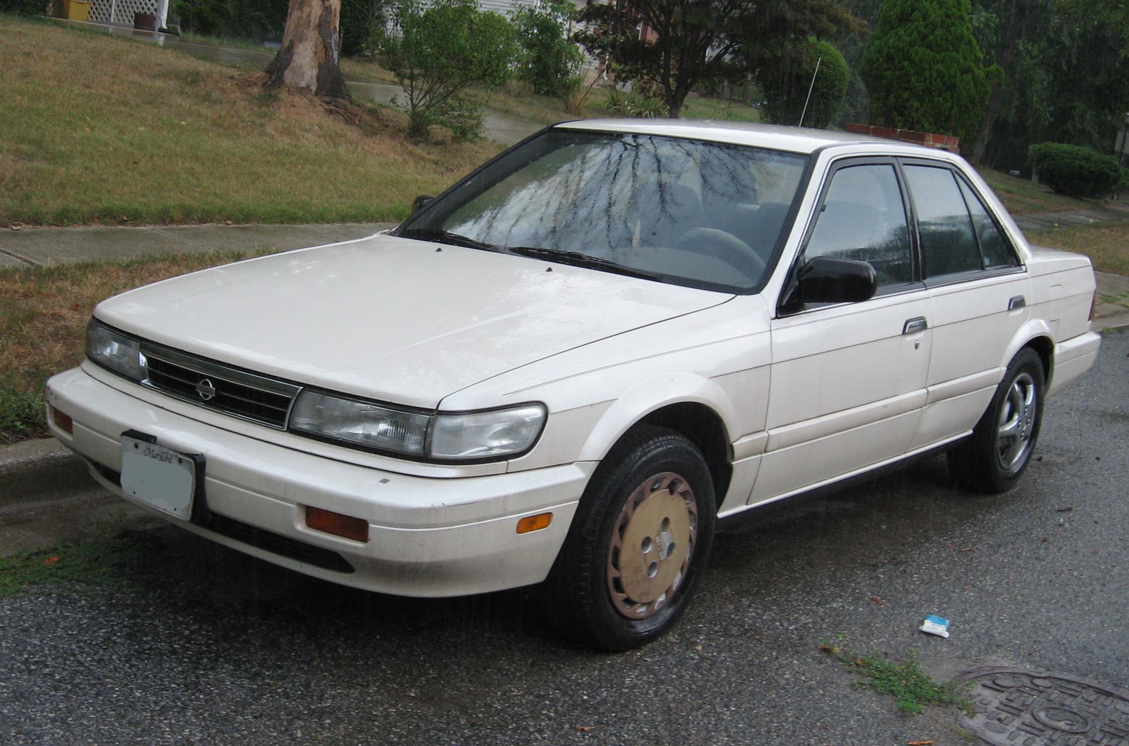 1990-1992 Nissan Stanza photographed in USA.